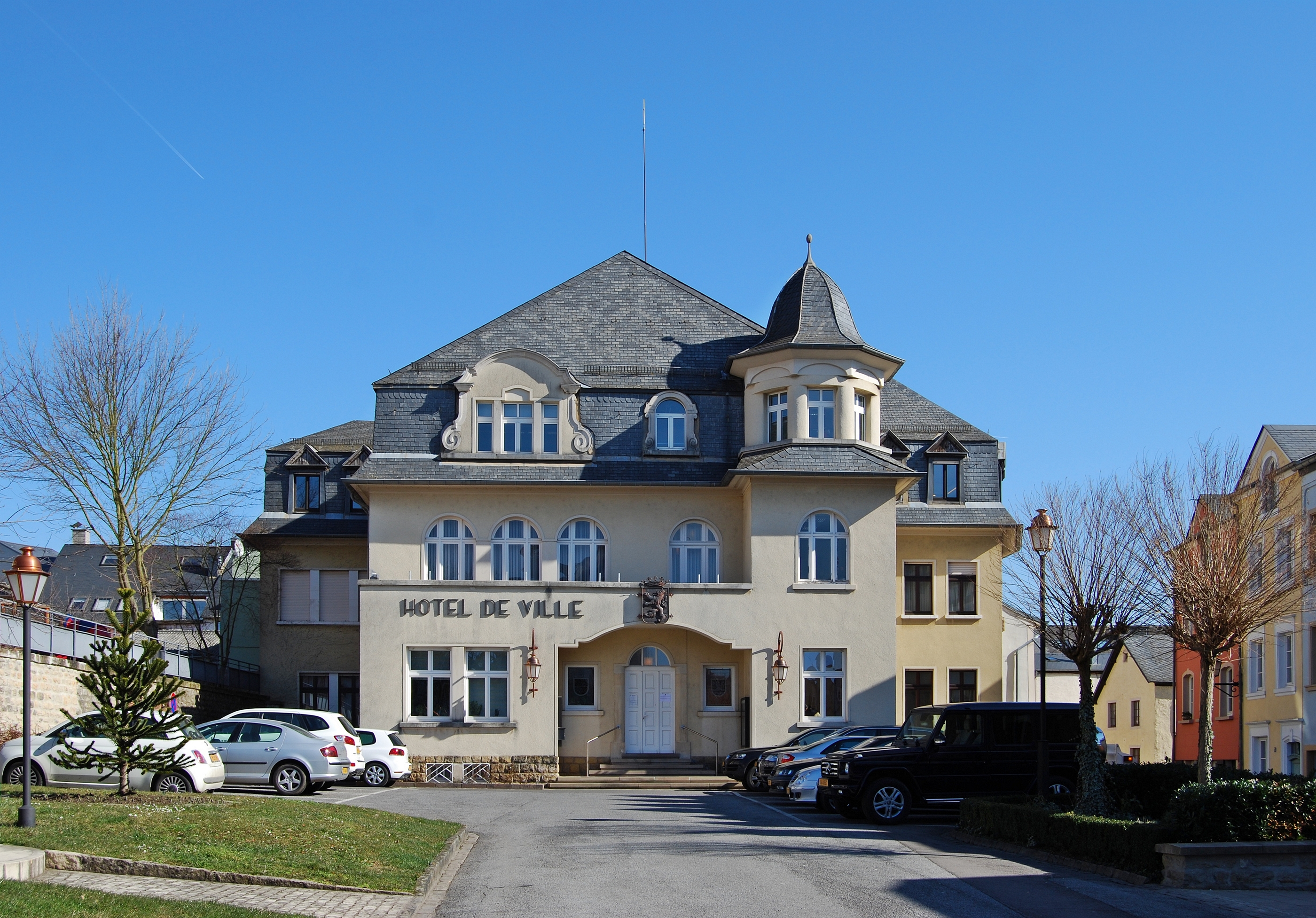 The town hall of the commune Remich, Luxembourg.